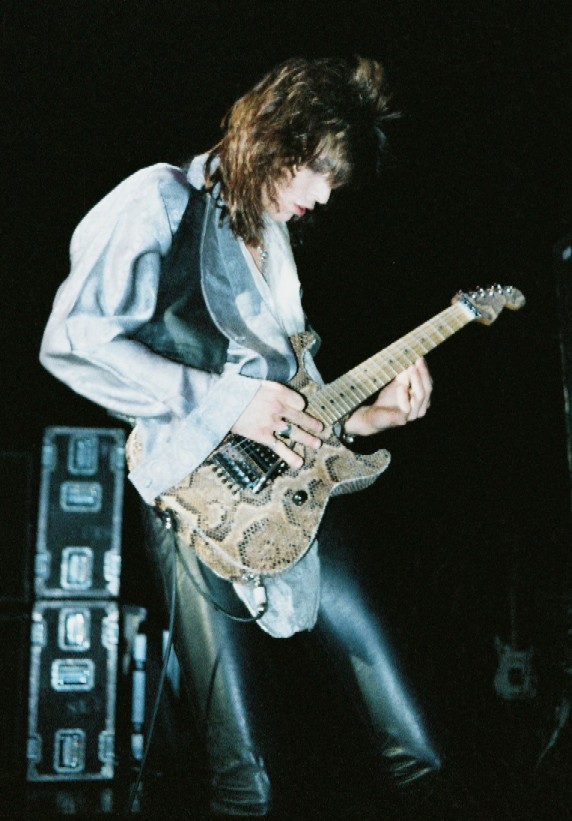 Warren DeMartini, London, 1986. Photograph by Tim Stevens